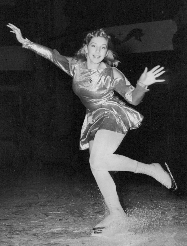 1940 Miss Belita Turner Represented England in 1936 Winter Olympics Press Photo